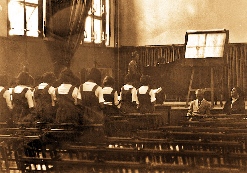 Girls in Evelina de Rothschild School in Jerusalem sing for the High Commissioner Wauchope. Ms. Annie Landau, principal of the school, is sitting on the right.